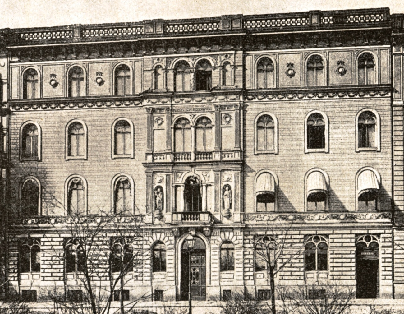 Haus Oldenbourg, Schillerstraße 6, Leipzig, Germany